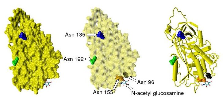 This image was created using a combination of VMD, powerpoint openoffice and GIMP.